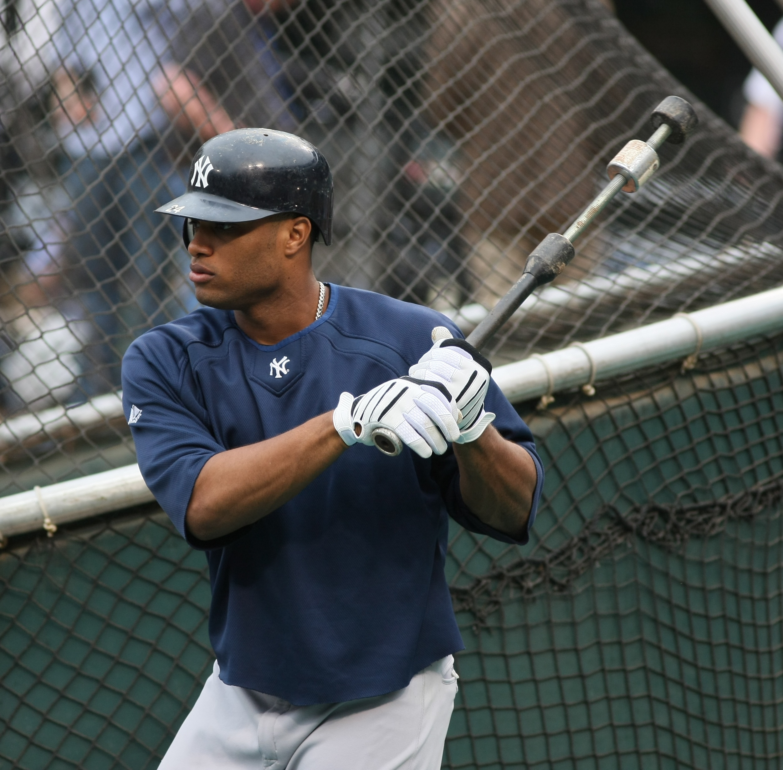 Robinson Canó in 2009.